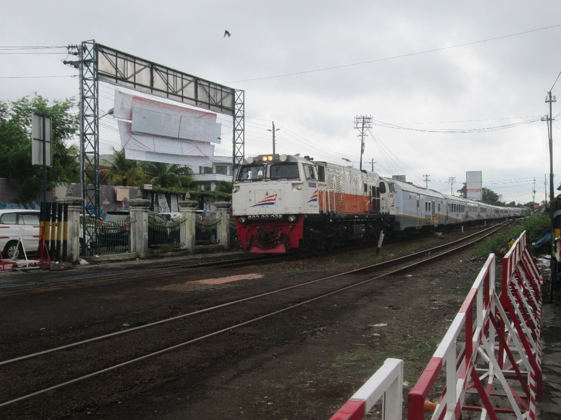 The CC206 diesel-electric locomotive hauling Argo Lawu train will arrive at Yogyakarta Railway StationBahasa Indonesia: KA 7 Argo Lawu ditarik CC206 13 23 akan masuk Stasiun Tugu